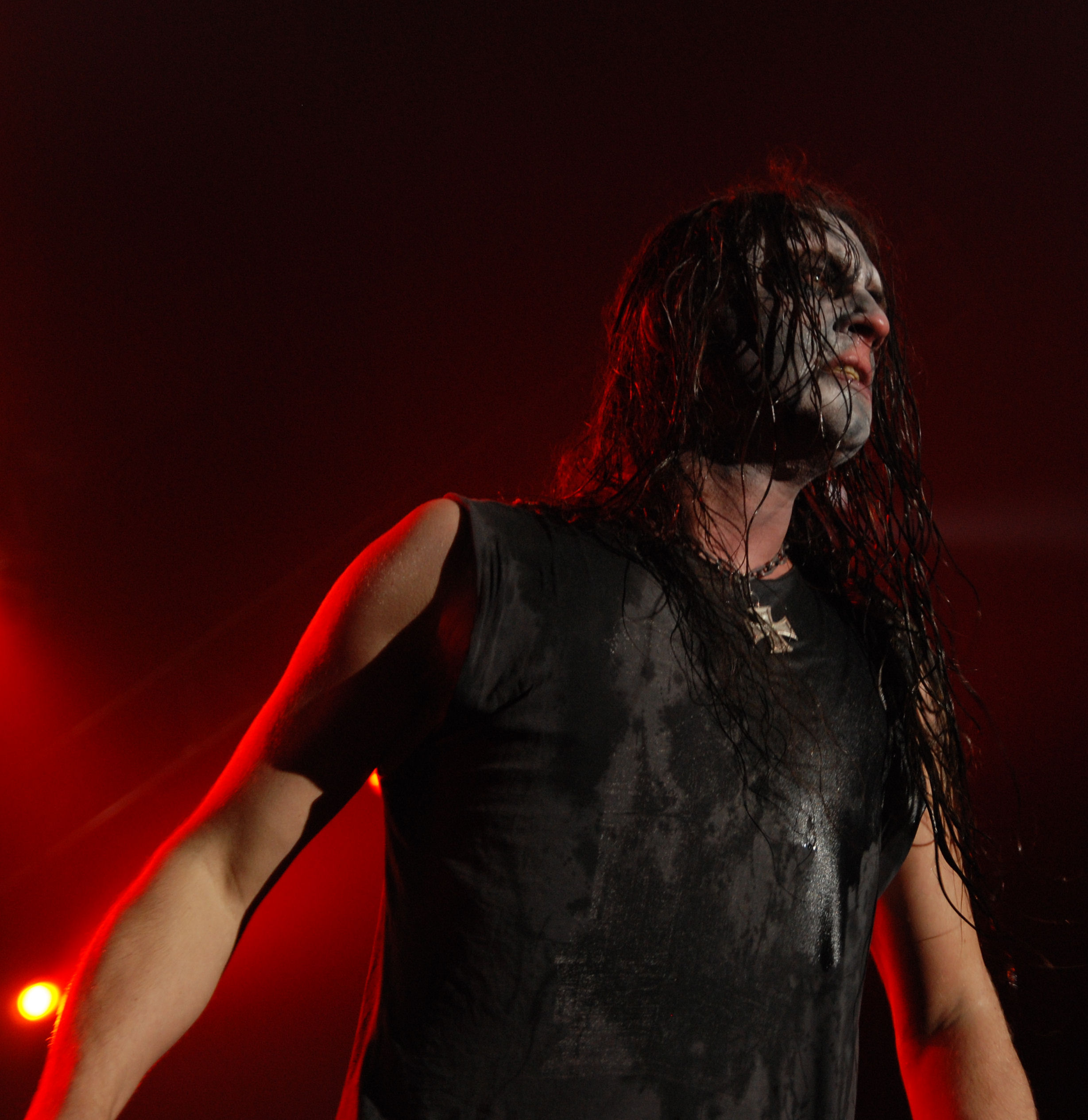 Mortuus from Marduk during Metalmania 2008 festival